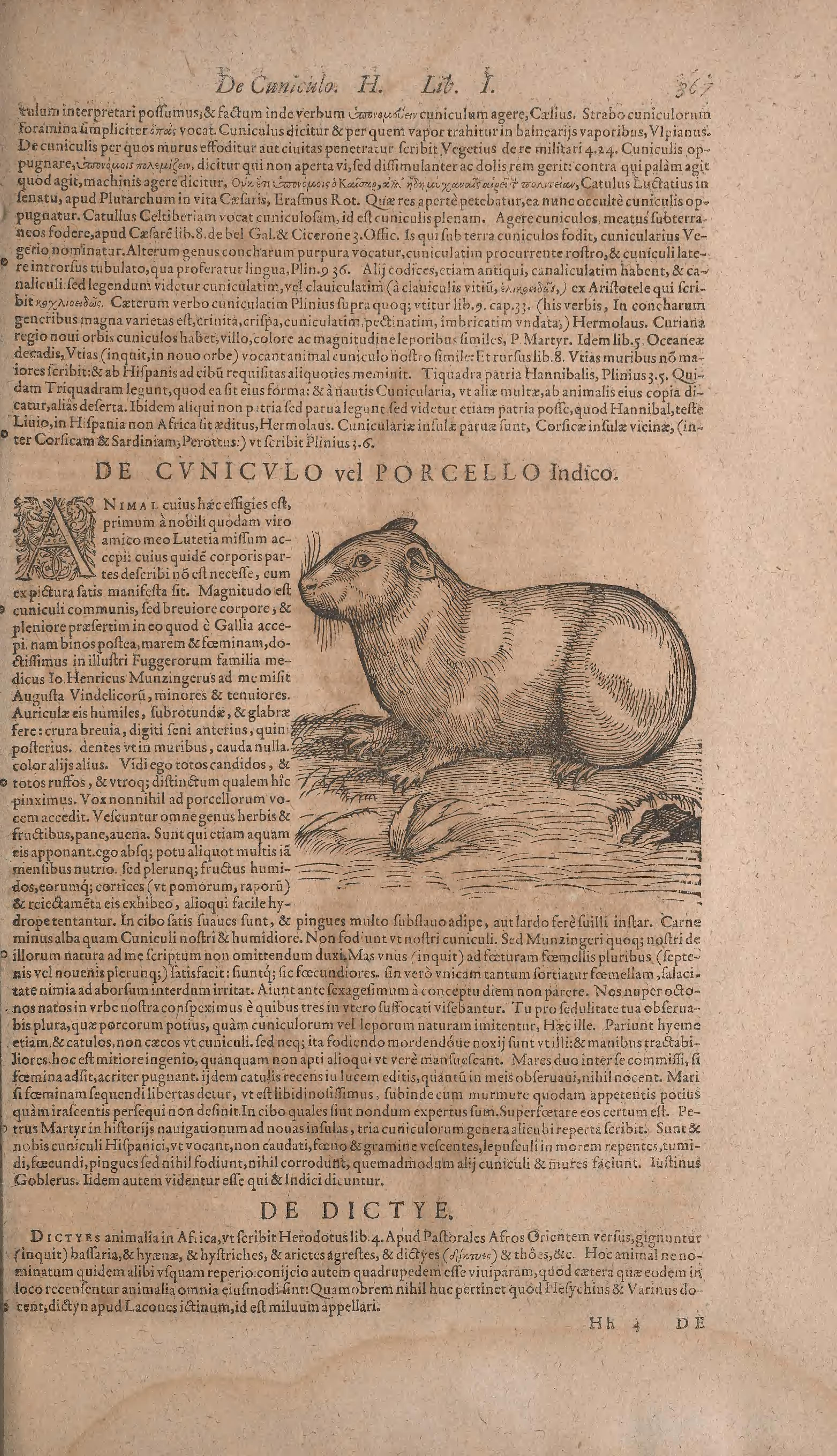 Title: Conradi Gesneri medici Tigurini Historiae animalium liber primus de quadrupedibus viuiparis : opus philosophis, medicis, grammaticis, philologis, poëtis, & omnibus rerum linguarumq́ue variarum studiosis, vtilissimum simul iucundissimumq́ue futurum Year: 1602 (1600s) Authors: Gessner, Conrad, 1516-1565; Schmarda, Ludwig K. (Ludwig Karl), 1819-1908, former owner. DSI; National Zoological Park (U. S. ), former owner. DSI Subjects: Pre-Linnean works; Zoology Publisher: Francofurti : In Bibliopolio Cambieriano Text Appearing Before Image: aaut Text Appearing After Image: '